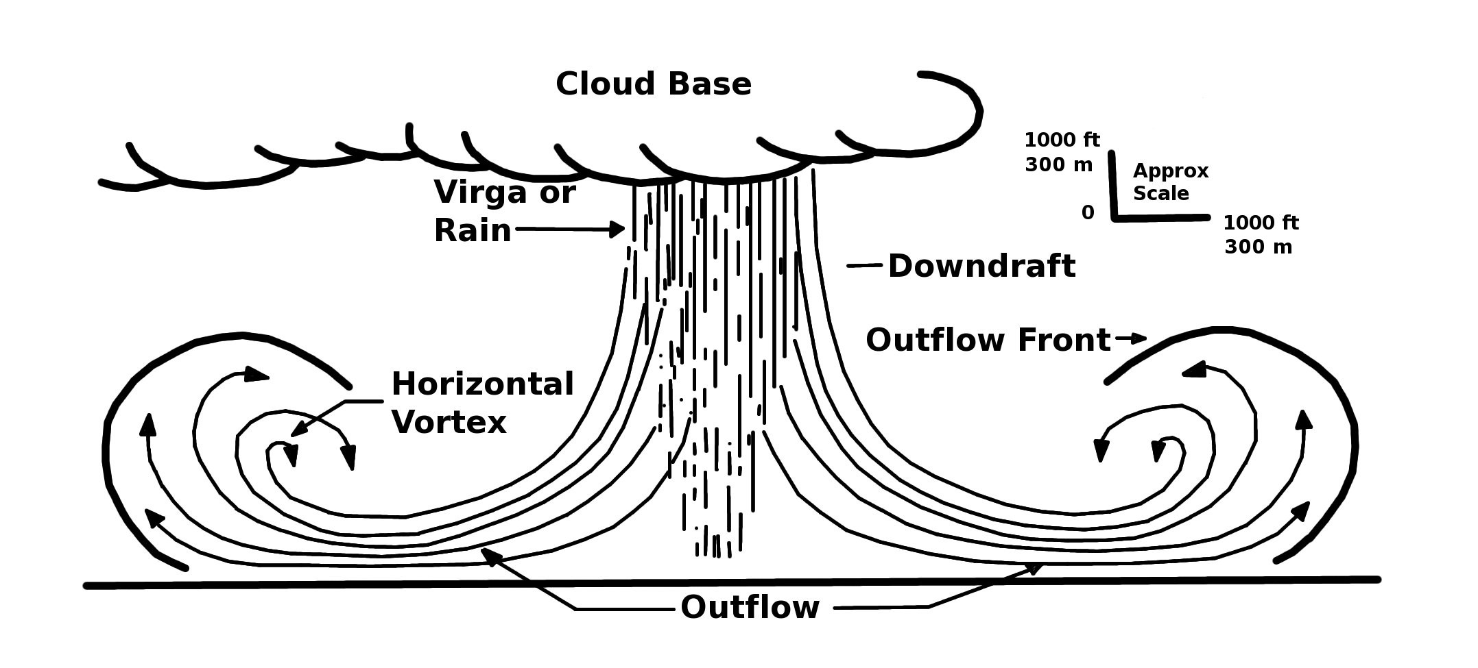 Schematic of a cross-section through a microburst Public Domain since it is a U.S. Federal Government Agency